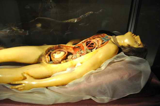 The “Venerina” of Clemente Susini (anatomical wax model) displayed in the Museum of Palazzo Poggi, Bologna - Italy.